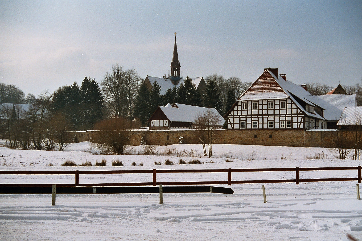 The cloister in Loccum/Germany in January 2005.